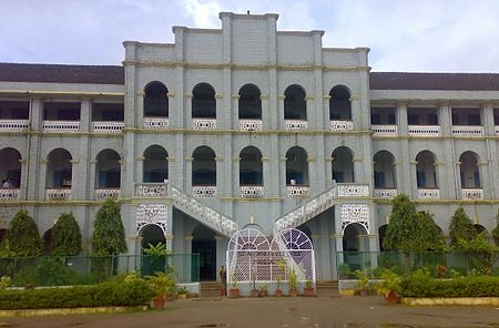 St. Aloysius College, Mangalore